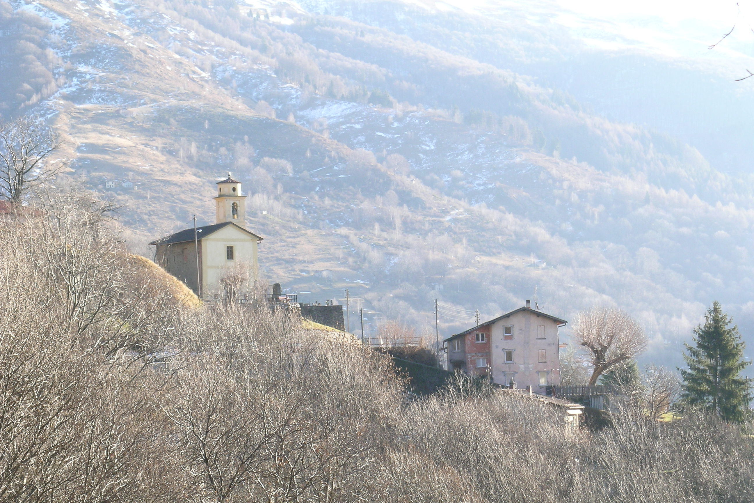 Signôra village in Valcolla, Ticino, Switzerland